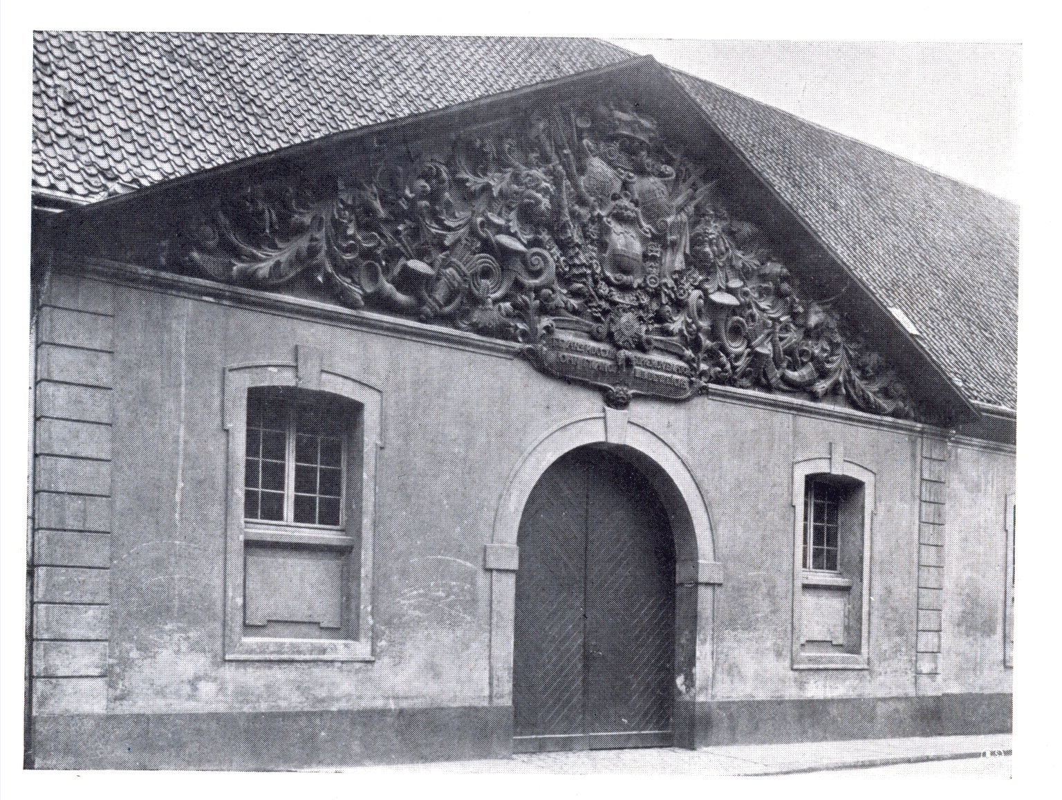 t